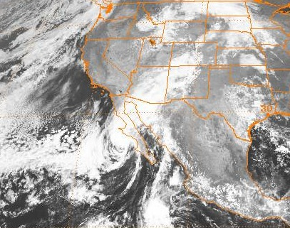 Tropical Storm Raymond nearing landfall on the Baja California Peninsula on October 4, 1989